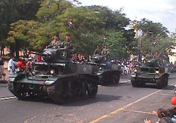 The M3A1 Stuart tanks of the Paraguayan Army during the Independence day parade, 15th of May 2002, in Asuncion.